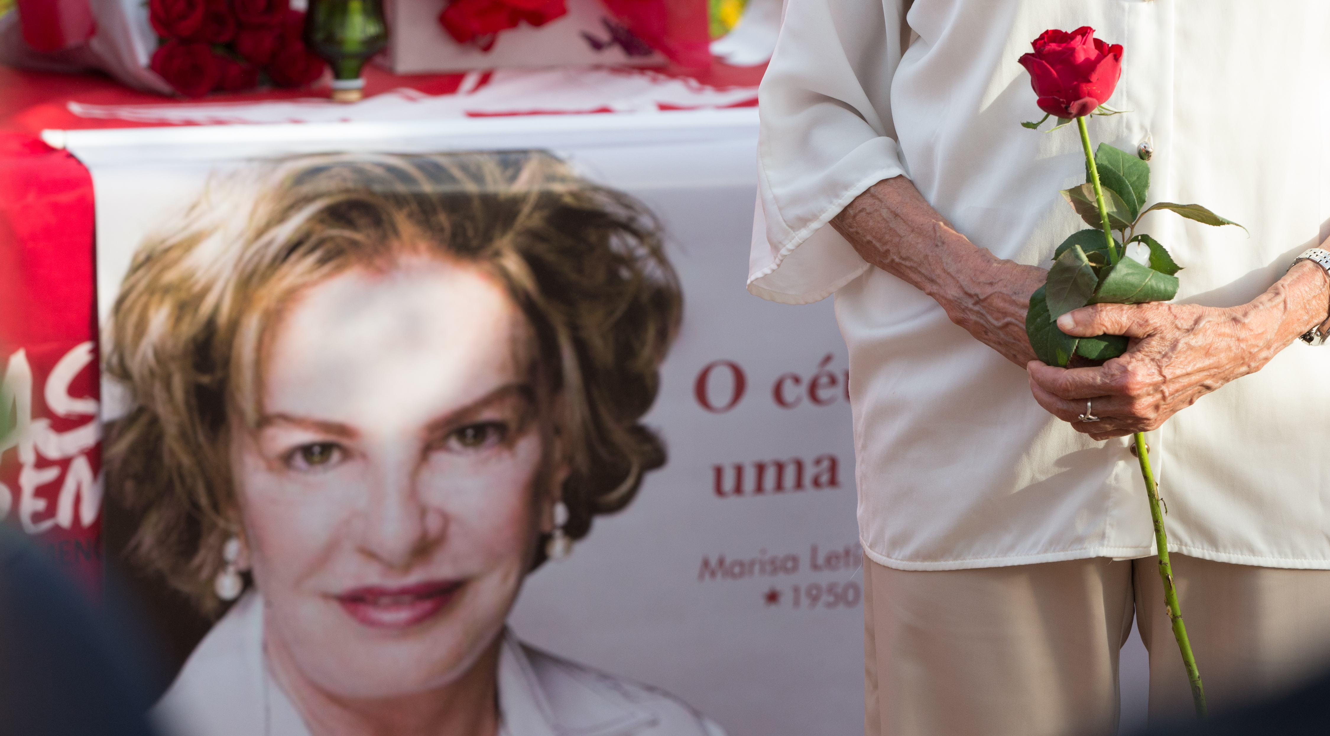 Brasília- DF 03-02-2017 Ato em homenagem a D. Marisa na Torre de TV em Brasília Foto Lula Marques/Agência PT